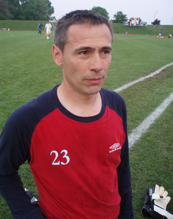 Dušan Belić warms up prior to a Canadian Soccer League match in 2007.